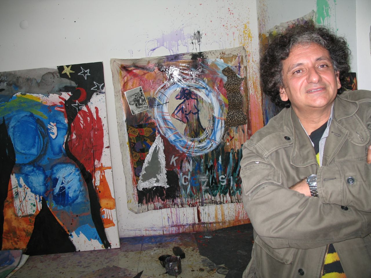 The Turkish artist and celebrity Bedri Baykam. A mutual friend (who knew Bedri when he lived in California in the 1980s) arranged for us to meet in Istanbul. Bedri invited us to his new studio space, and soon-to-be opened gallery and café just off Taksim Square.